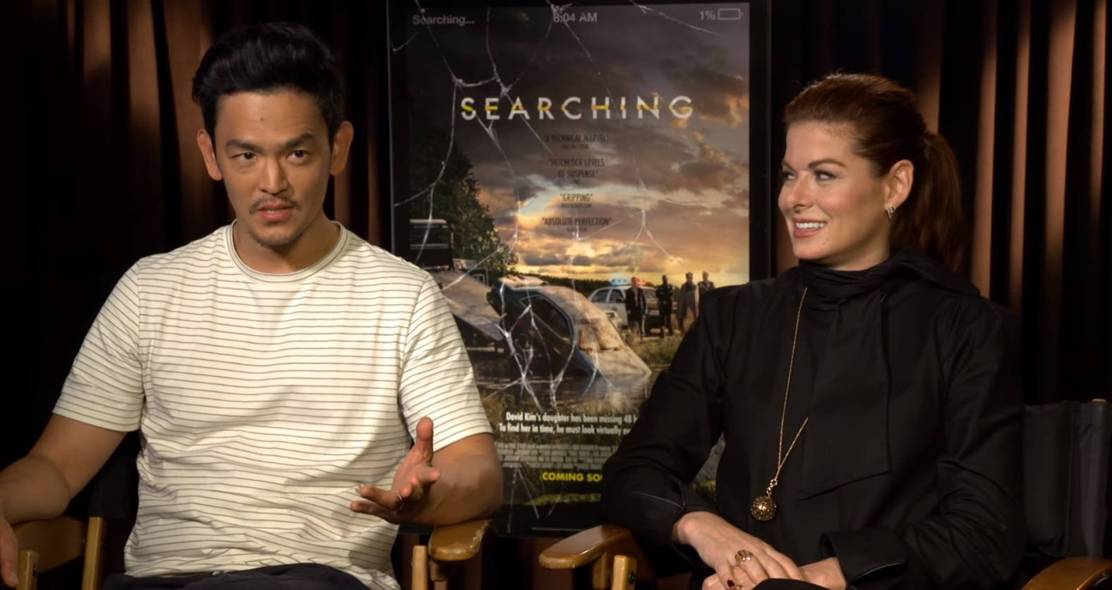 Stars of new millennial thriller Searching, Star Trek's John Cho, Will & Grace's Debra Messing, and director Aneesh Chaganty reveal the tricky way they made the new mystery movie, which is told entirely through computer screens and apps… and what had everyone LOLing on set!